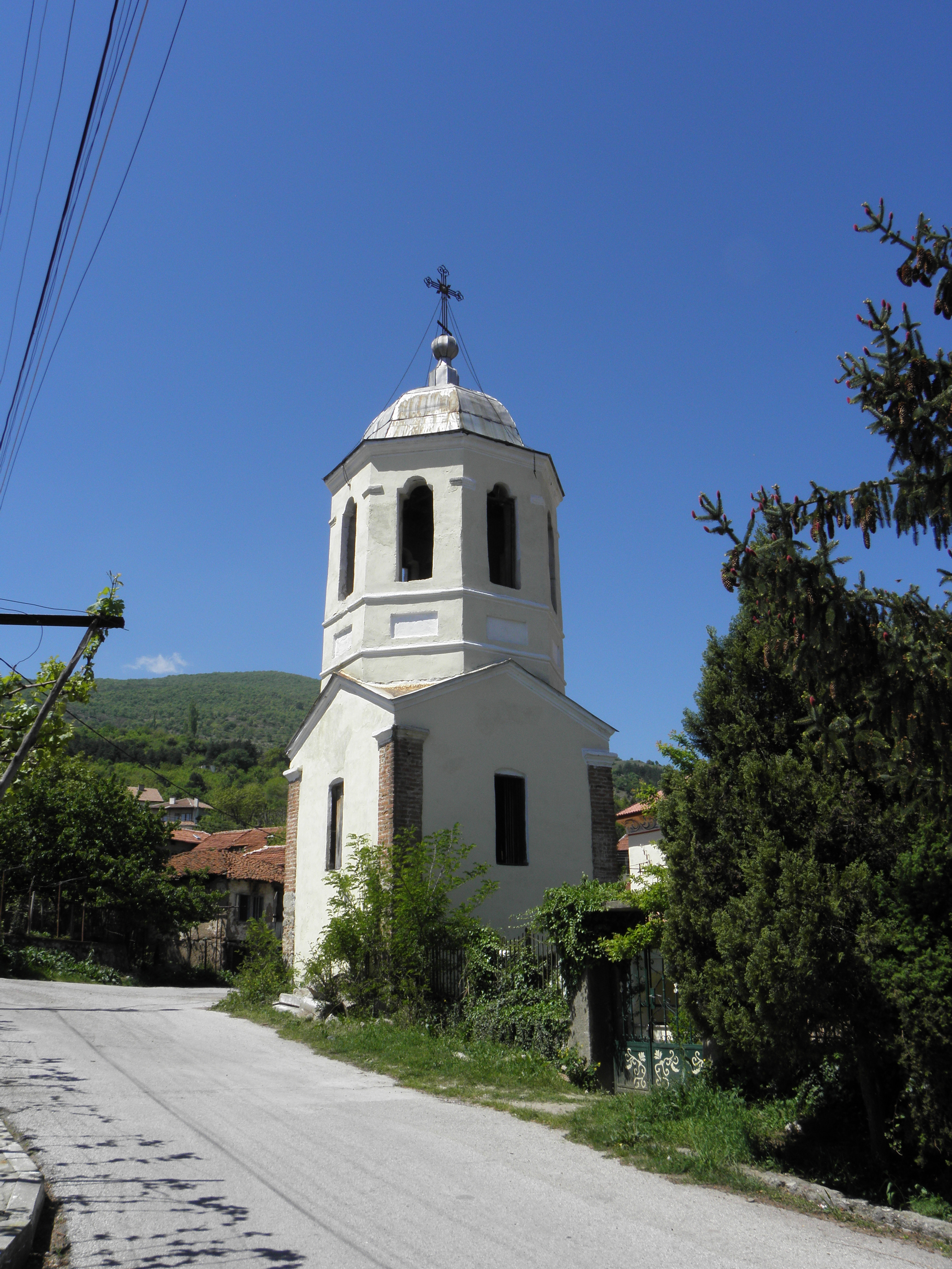 Church of the Holy Mother of God, Boboshevo